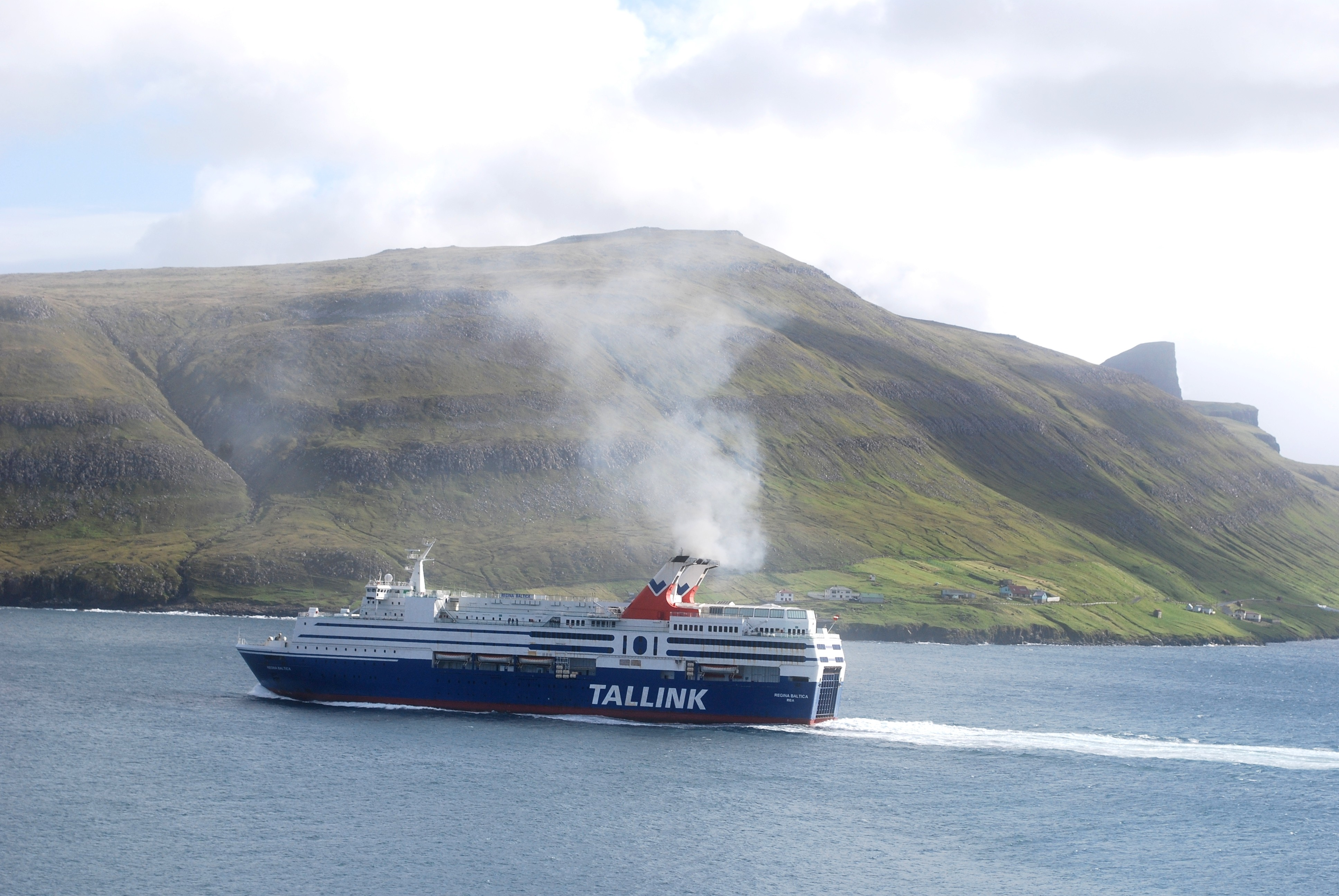 M/S Regina Baltica in Vágsfjørður, Suðuroy, Faroe Islands